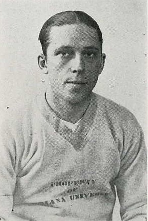 Photograph of George Levis